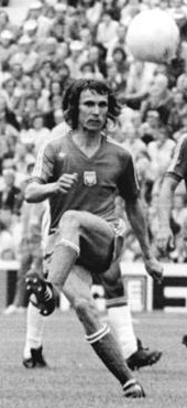 zoom-in